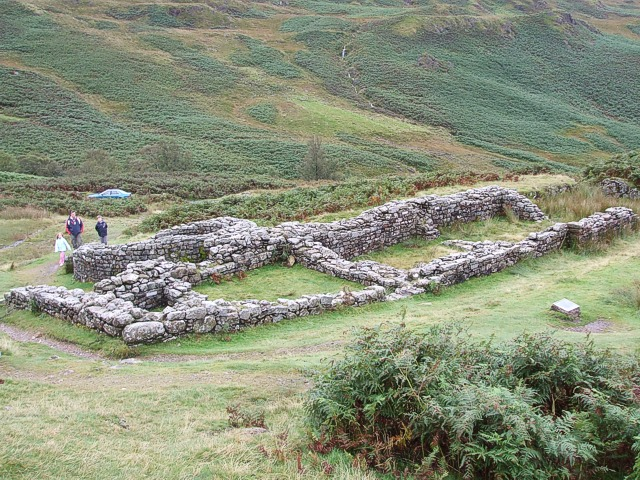 Hardknott Castle Roman Fort - Bathhouse. The bathhouse consisted of five parts, a plunge pool, the "Frigidarium" (cold room), "Tepidarium" (warm room) and "Caldarium" (hot room). These four rooms made up the rectangular building in the forefront and are listed from left to right as seen. Behind them is a separate round room the 546613 properly known as a "Laconicum". For a plan see 546616